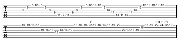 A tab with a guitar solo.